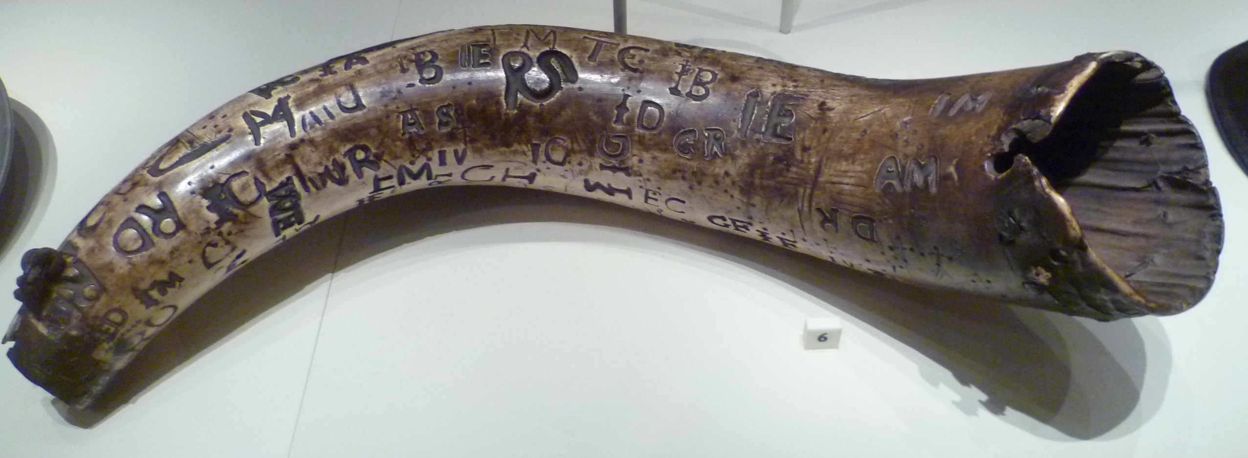 Wat o' Harden's horn. An exhibit in the National Museum of Scotland. He took a bugle frae his side, With names carved o'er and o'er, Full many a chief of meikle pride, That Border bugle bore. (The Reiver's Wedding)